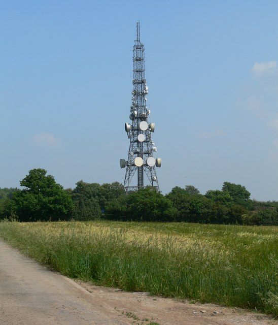 Radio mast at Copt Oak This is one of the two radio masts located at Copt Oak, they are visible from much of Leicestershire. It is 71 metres in height.